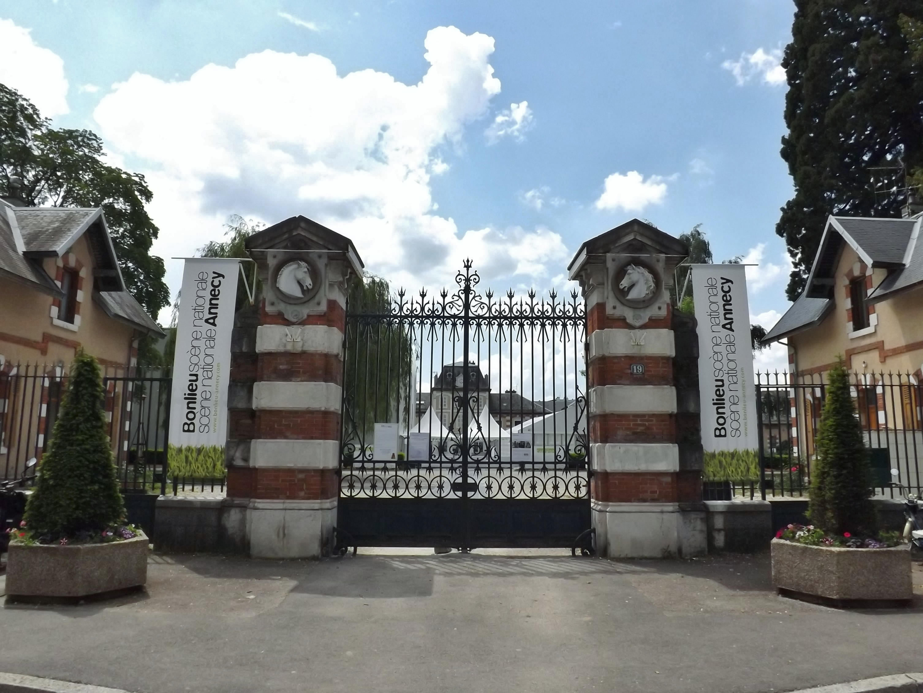 Sight of the haras national d'Annecy (city of Annecy stud farm) portal, in Annecy, Haute-Savoie, France.